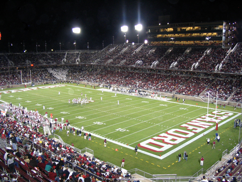 Photo taken on September 16, 2006, by myself.